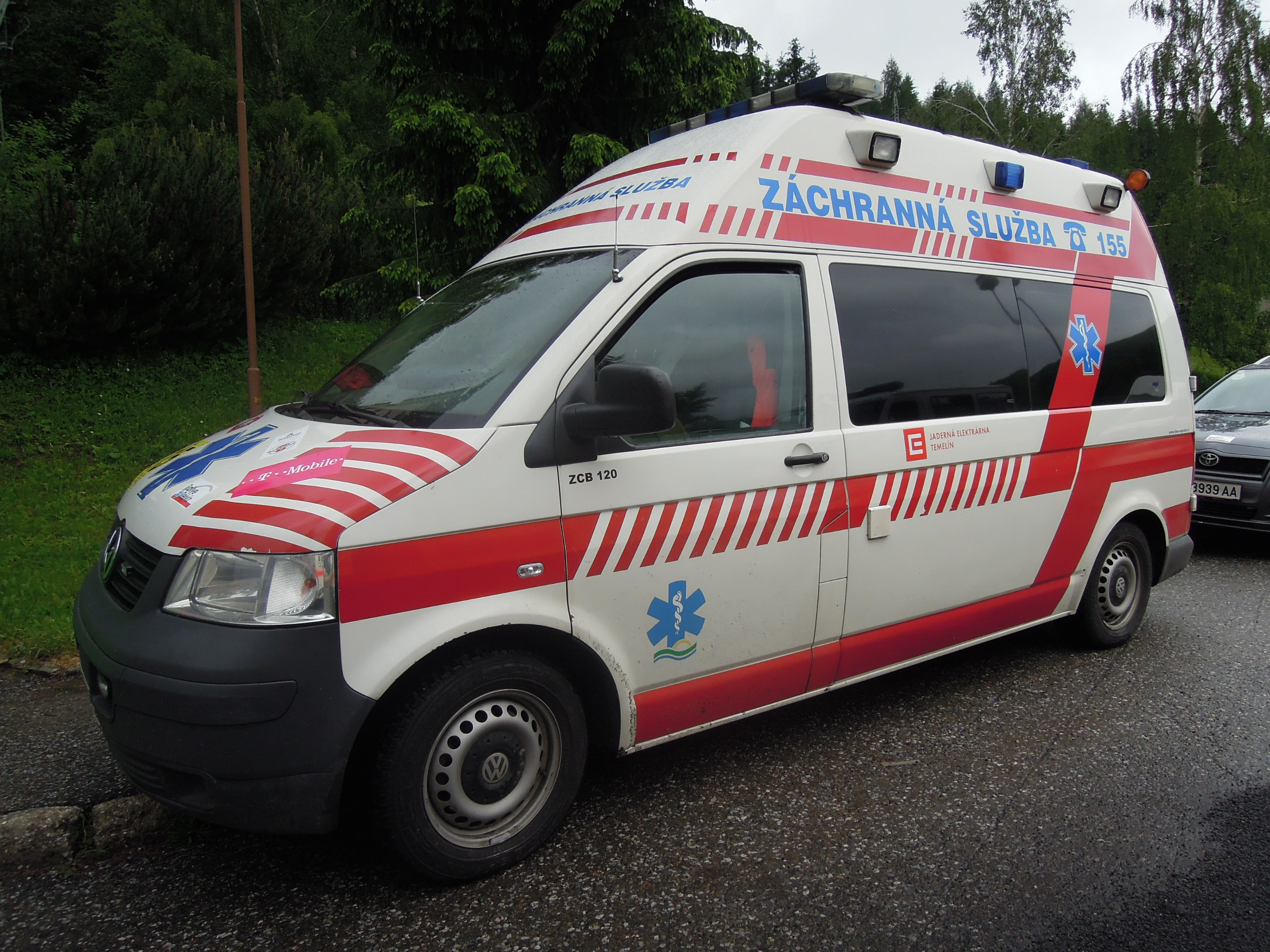 Volkswagen Transporter T5 ambulance of Zdravotnická záchranná služba Jihočeského kraje. Photo was taken during the international competition Rallye Rejvíz 2012 in Kouty nad Desnou, Olomouc Region, Czech Republic